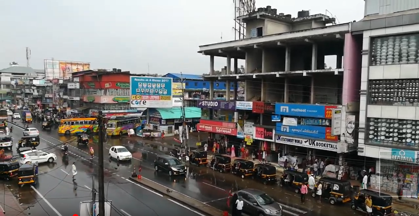 A view of Kondotty town, Kerala, India